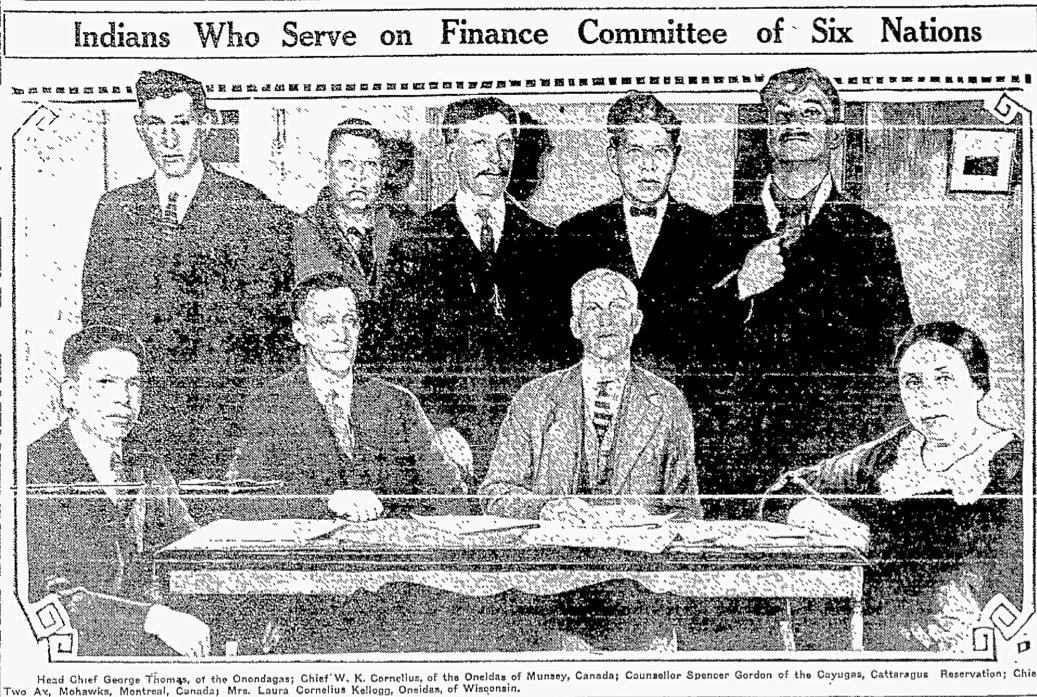 Six Nations Finance Committee, March 16, 1924, p.18. Other information No. This work is in the public domain because it was published in the United States between 1923 and 1963 and although there may or may not have been a copyright notice, the copyright was not renewed. Unless its author has been dead for the required period, it is copyrighted in the countries or areas that do not apply the rule of the shorter term for US works, such as Canada (50 pma), Mainland China (50 pma, not Hong Kong or Macao), Germany (70 pma), Mexico (100 pma), Switzerland (70 pma), and other countries with individual treaties. See Commons:Hirtle chart for further explanation. Deutsch | English | español | français | italiano | 日本語 | 한국어 | македонски | português | português do Brasil | русский | українська | edit|Template:PD-U